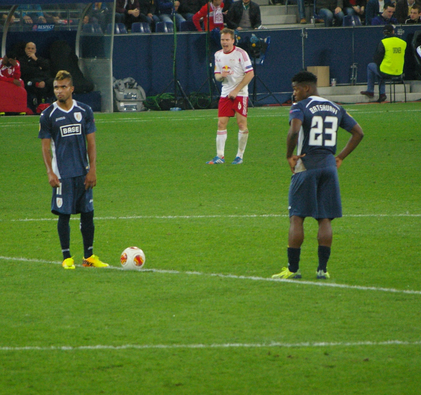 Group C match